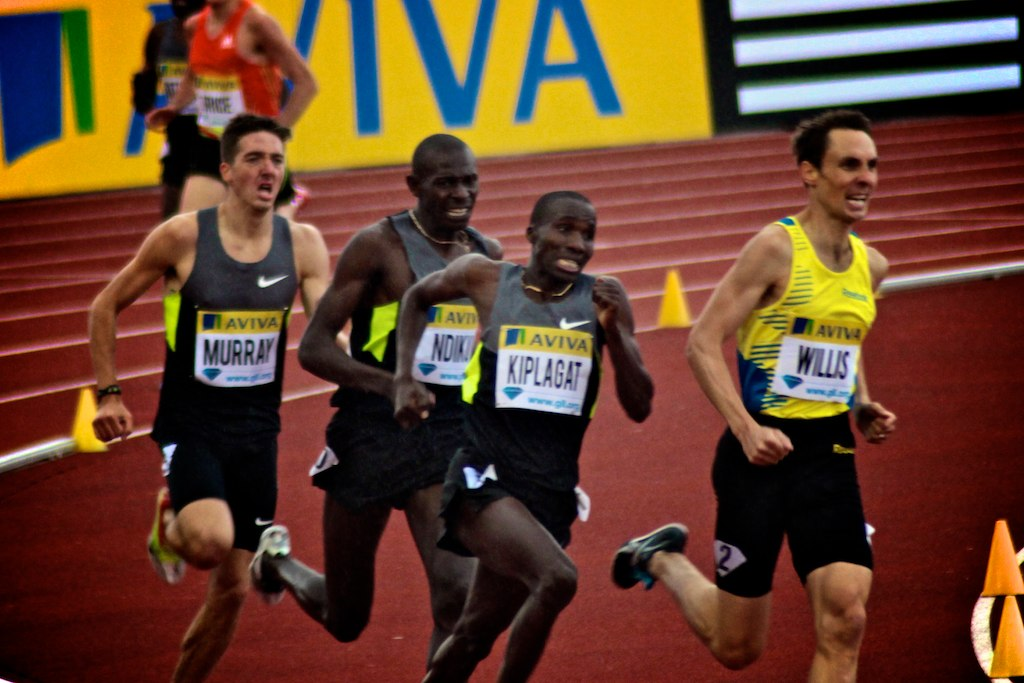 Crystal Palace Grand Prix, Diamond League 2012, 1 Mile, Ross Murray, Caleb Mwangangi Ndiku, Silas Kiplagat, Nick Willis